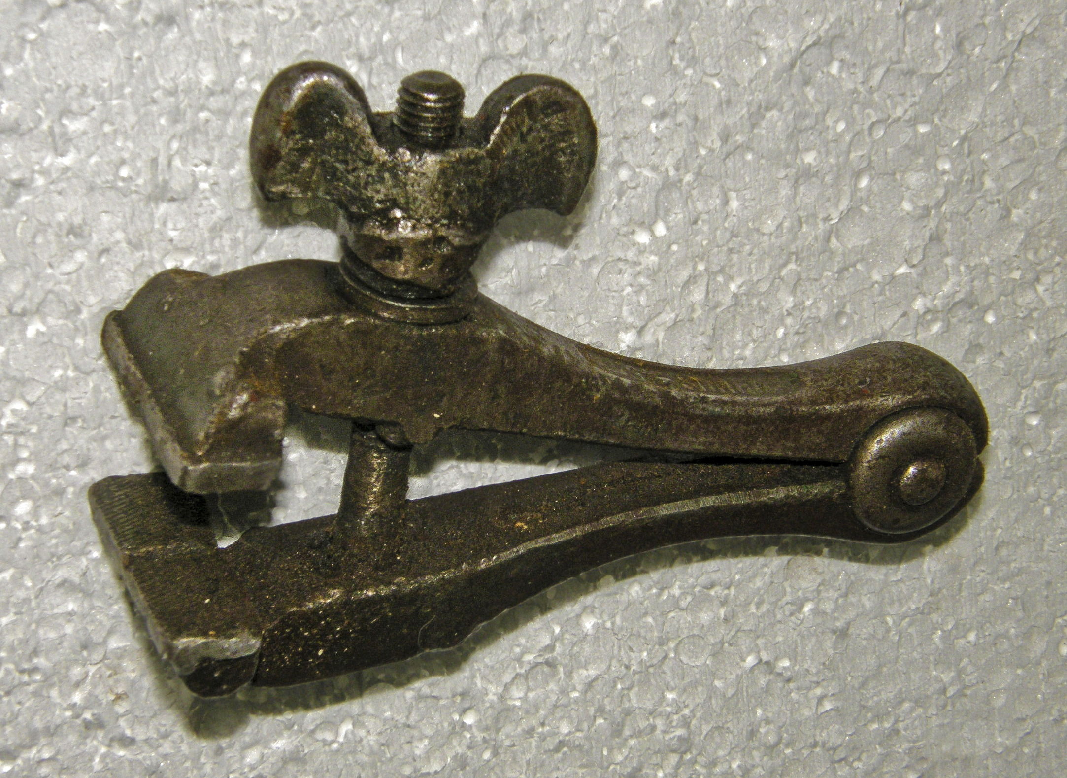 handtool-Vises